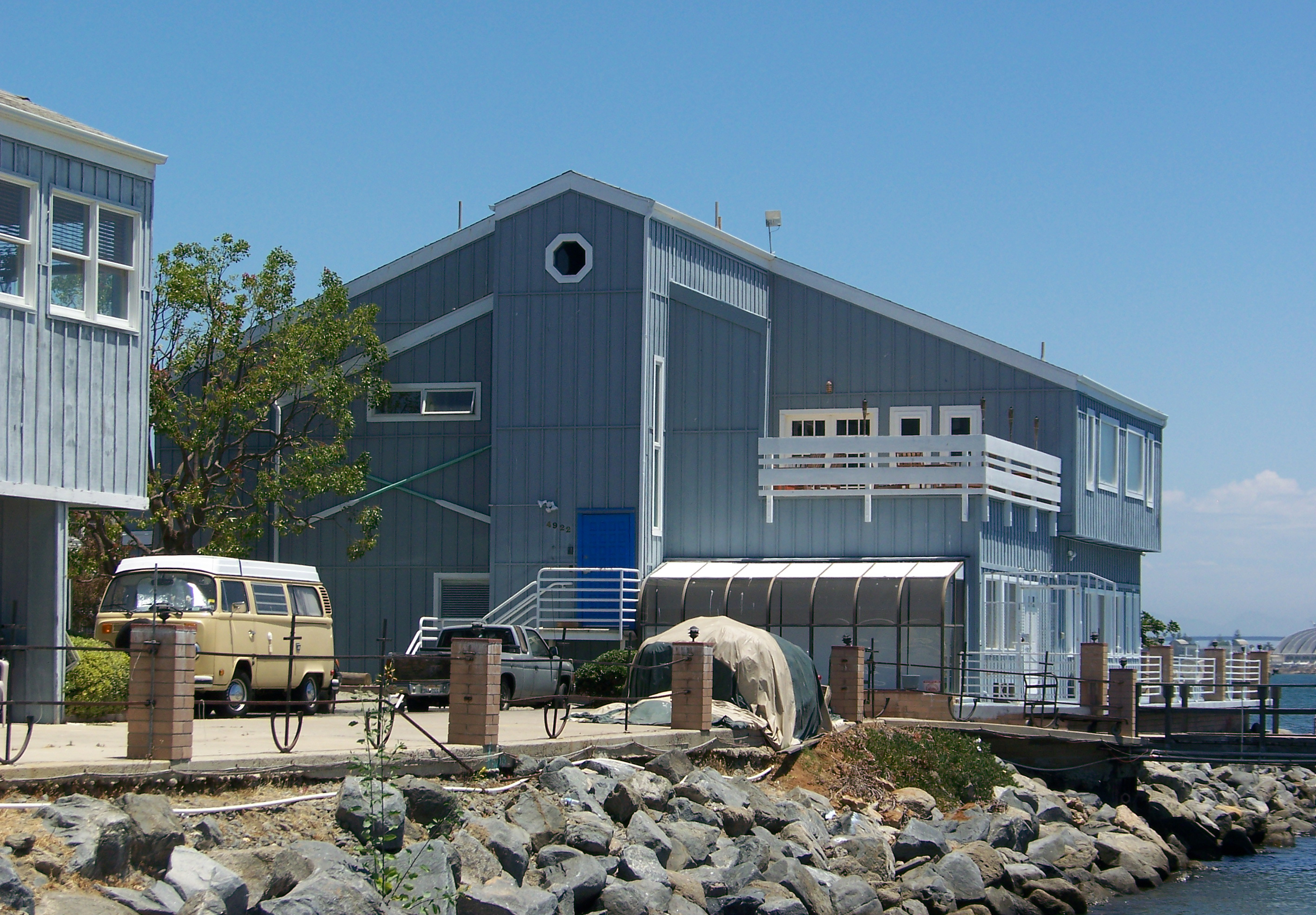 The former Blue Crab Restaurant that was used for the reality television show The Real World: San Diego. The building is located at 4922 N. Harbor Drive San Diego, CA 92106.